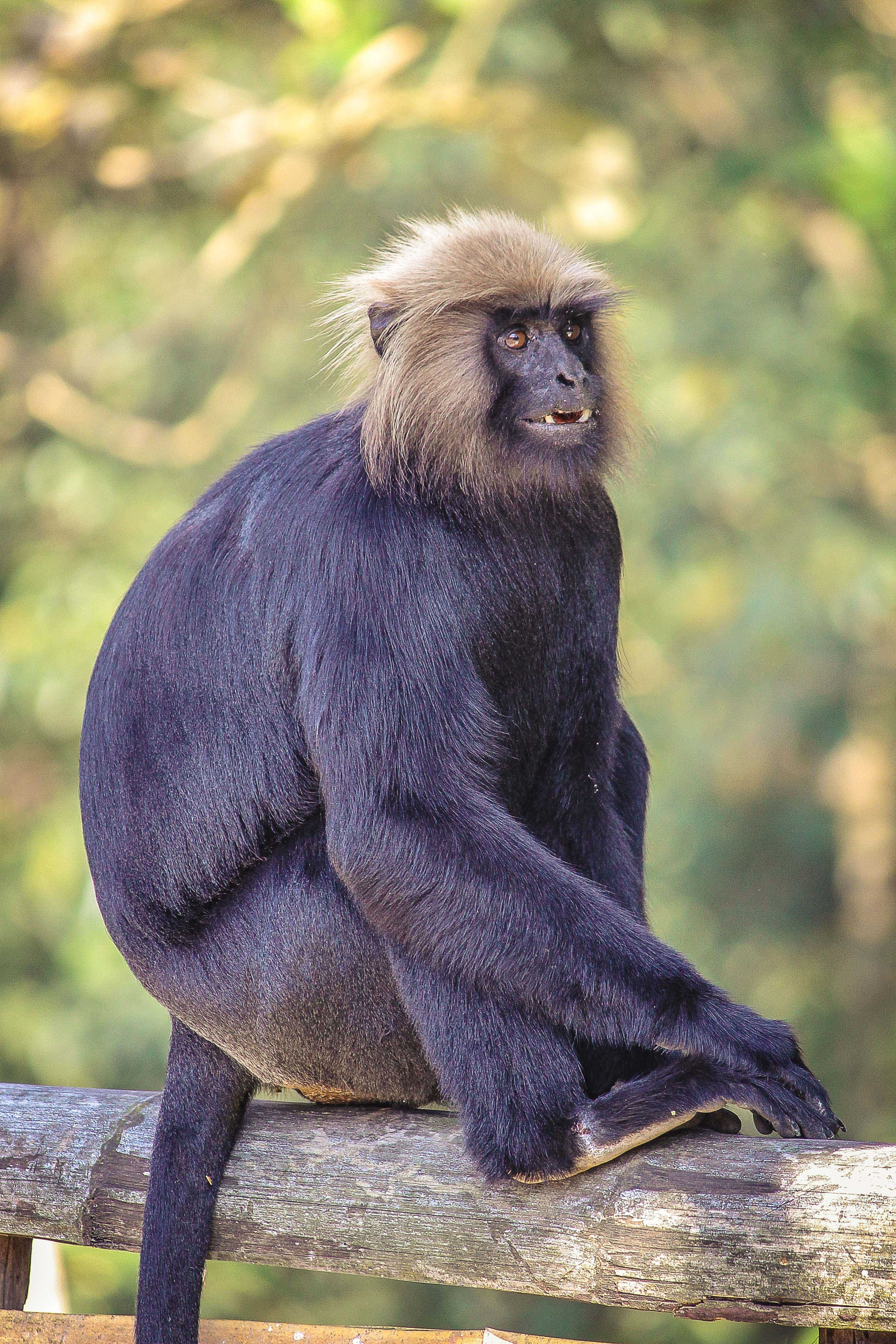 Nilgiri langur located at parambikulam,clicked during trekking.